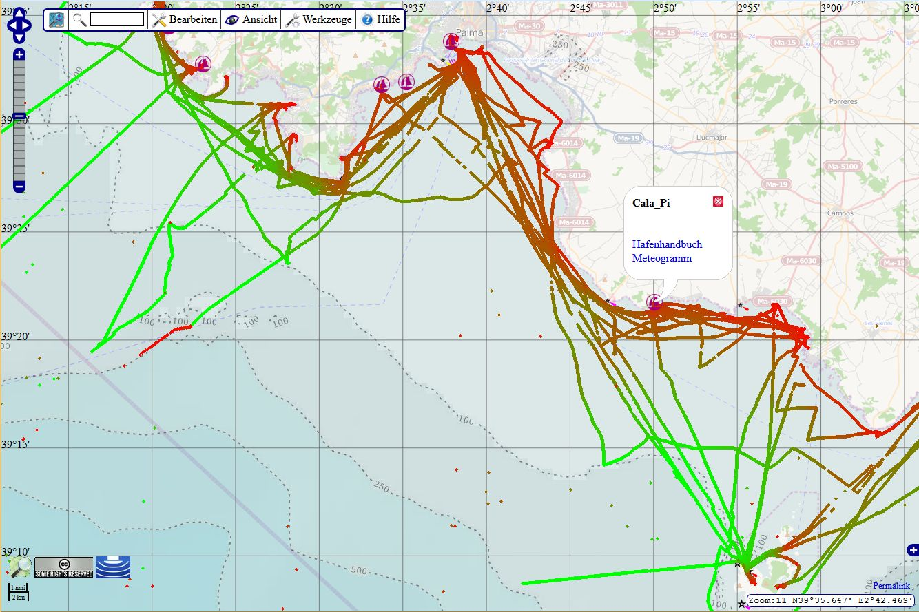 Screenshot from OpenSeaMap: Water depths tracks around Palma.